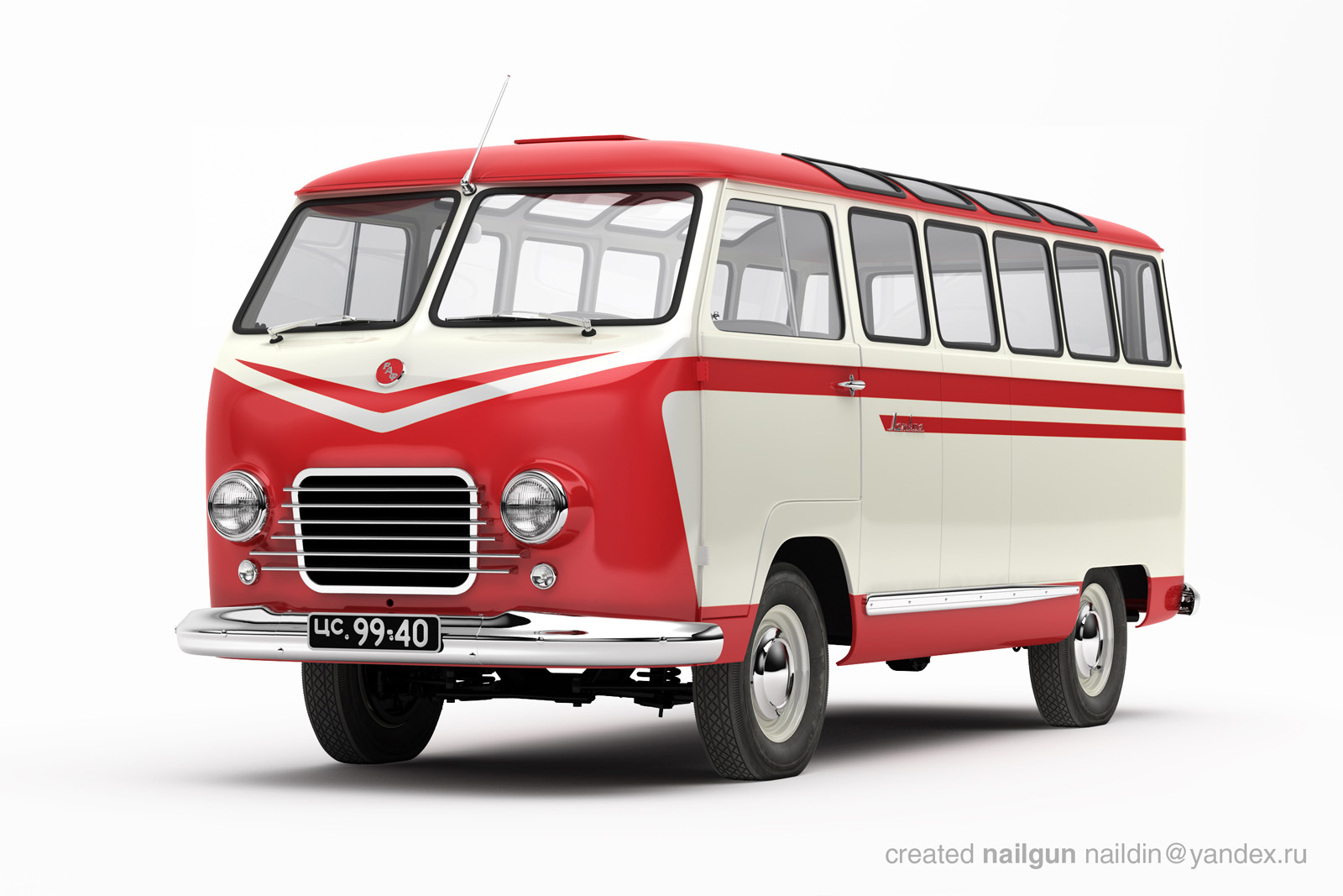 RAF-977 Latvija. First serias (1959 year) 3d model